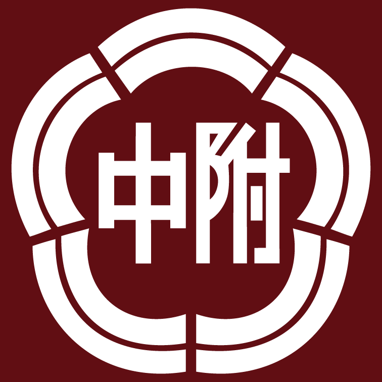 The official Logo of HSNU